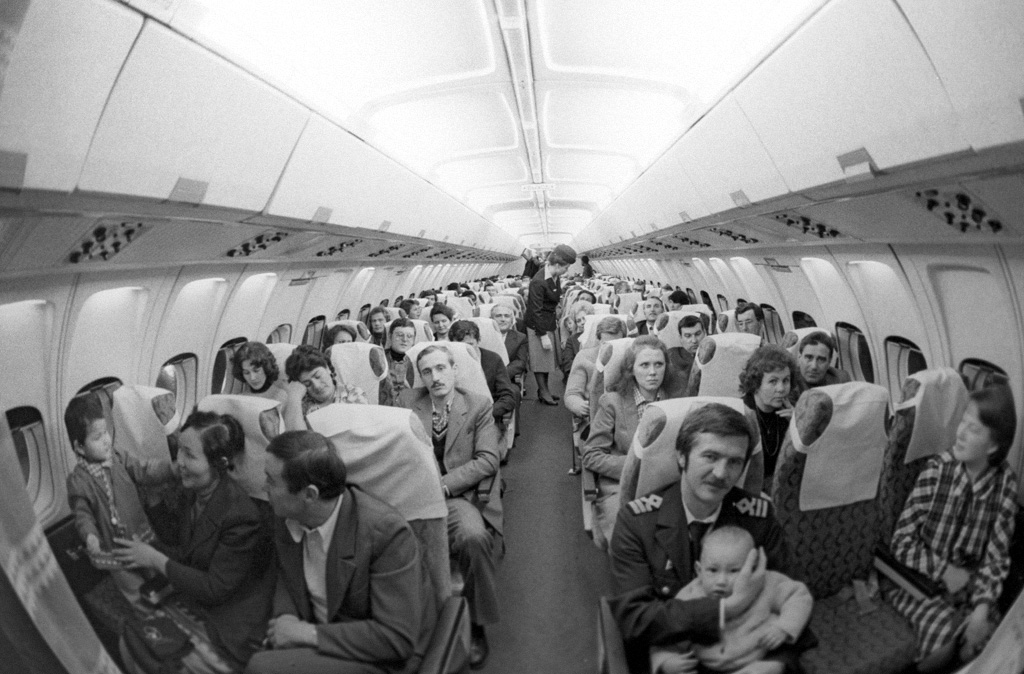 “IL-62”. On board of Aeroflot IL-62.